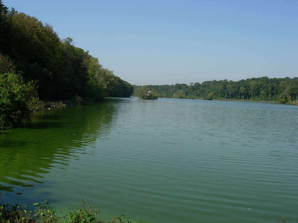 A view of the Tarrytown Reservoir from the Tarrytown Waterworks Dam.